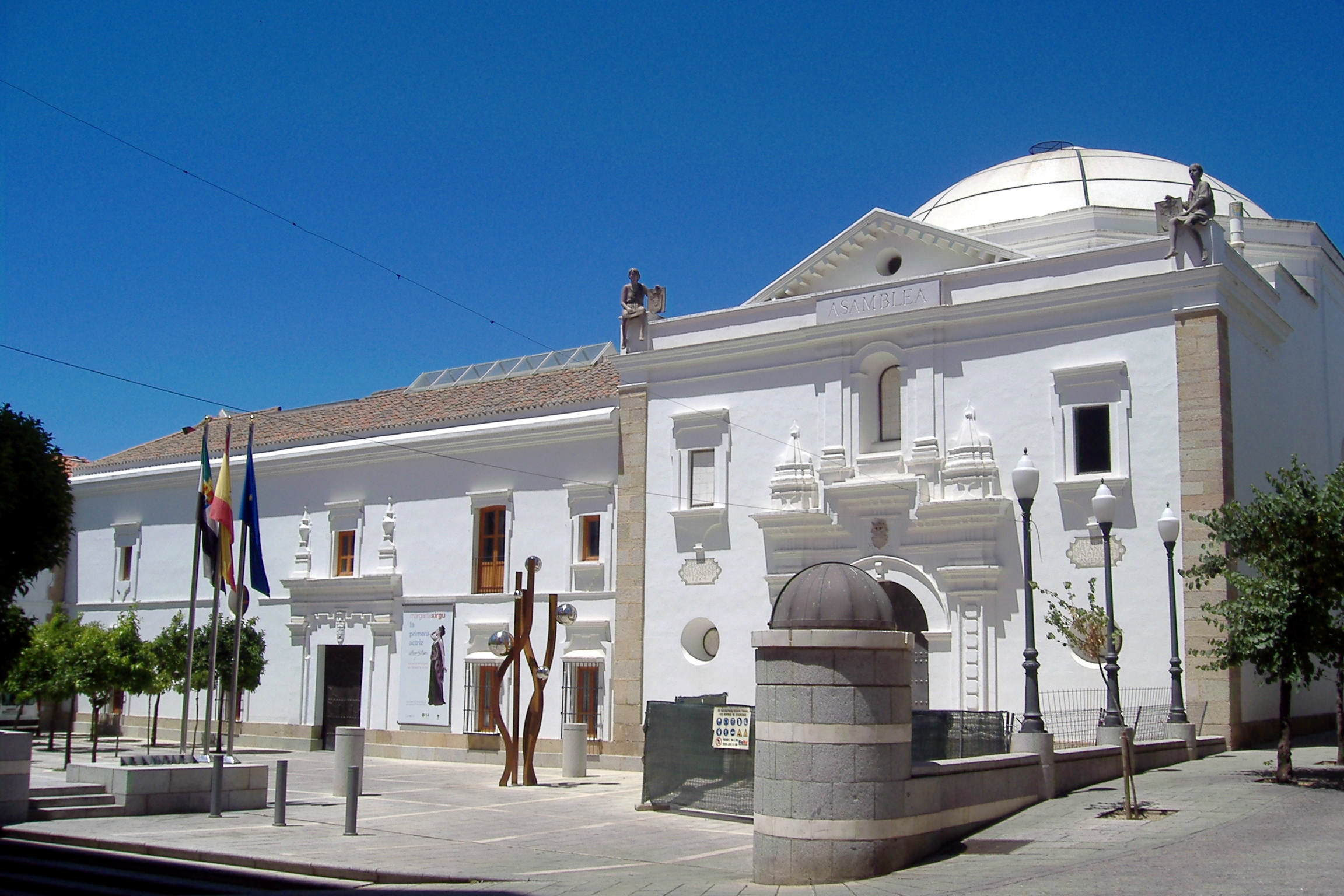 Parliament of the region of Extremadura, Spain